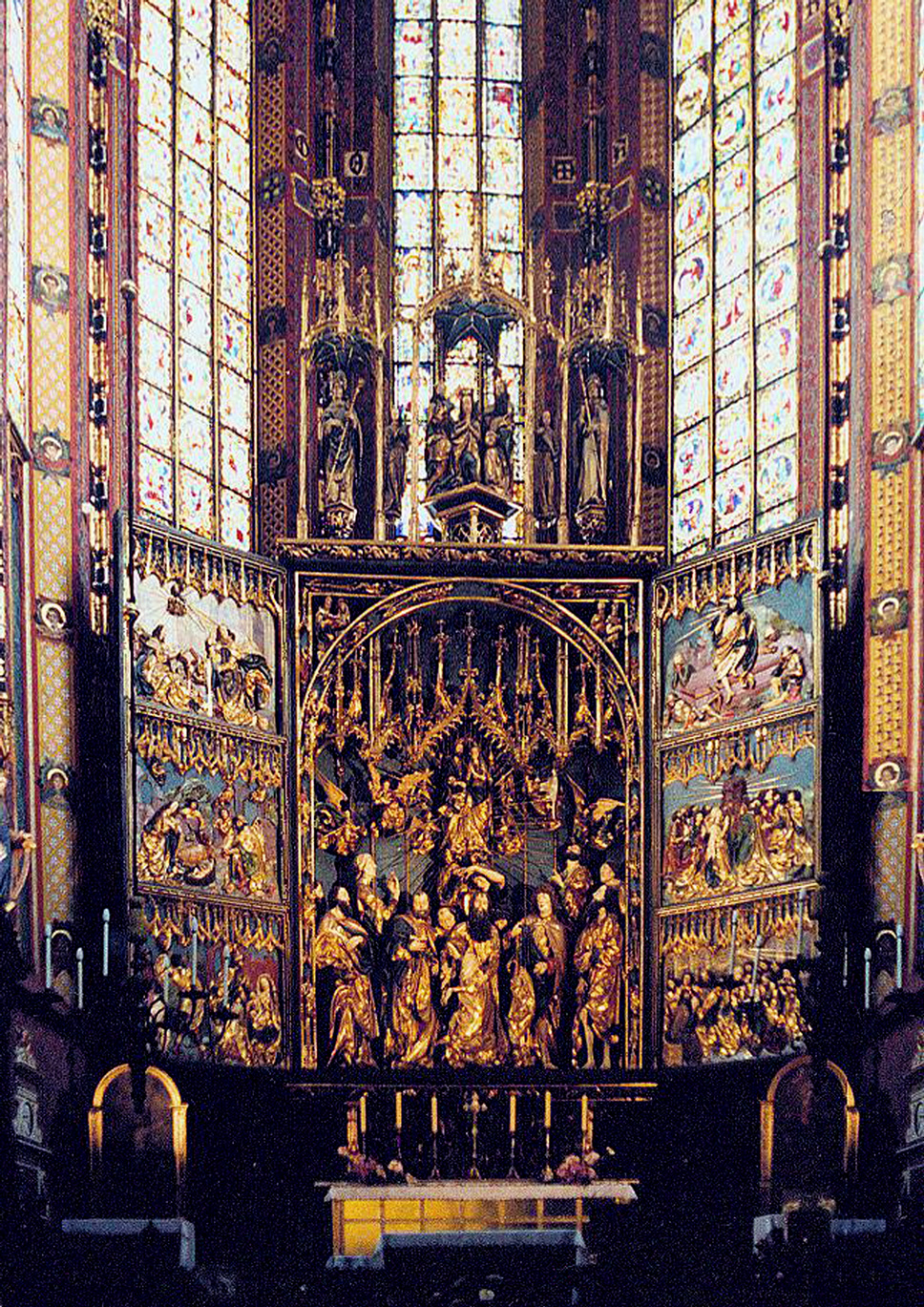 Kraków, altar by Wit Stwosz (Veit Stoss)